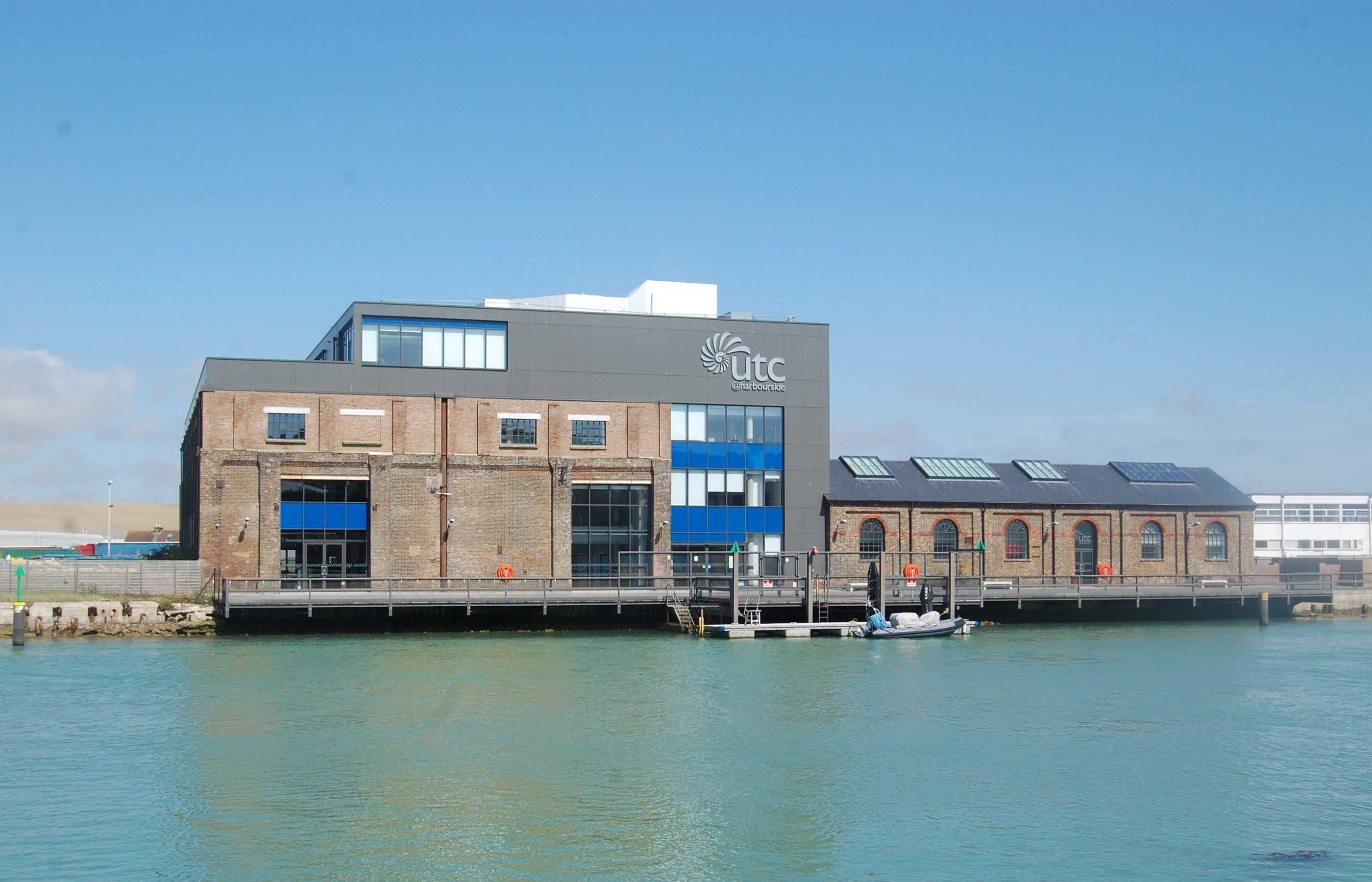 UTC@Harbourside (University Technical College), Railway Quay, Newhaven, East Sussex, England. This was opened as a 14–18 (Key Stage 4 and 5) technical college in 2015 with support from the University of Brighton. It closed in mid-July 2019 because of funding problems and insufficient student numbers. When photographed about a week after its closure, it retained the UTC@Harbourside branding. It is a converted industrial building on the quayside near Newhaven Harbour. This photograph was taken from the opposite (west) side of the River Ouse, which is in the foreground.